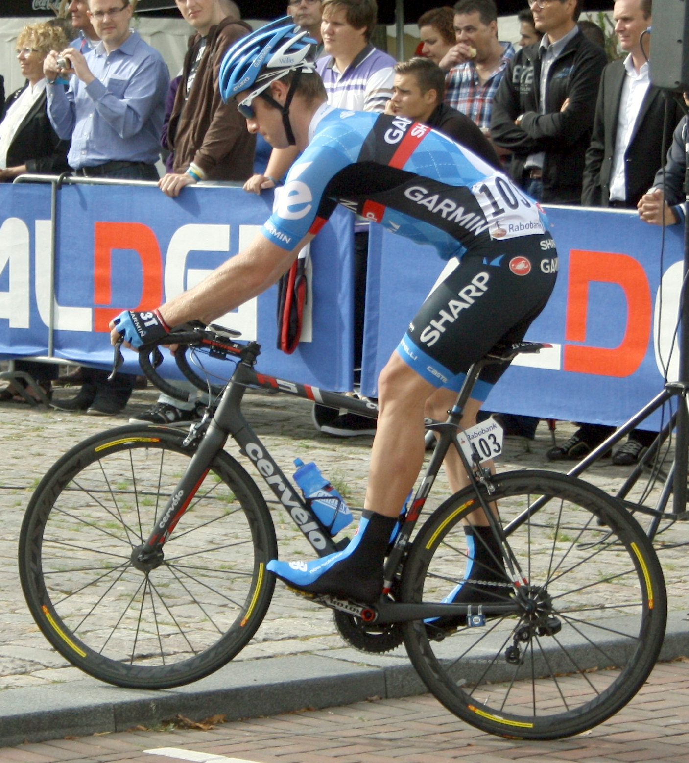 Glen O'Shea before the start of stage 2 of the World Ports Classic 2013